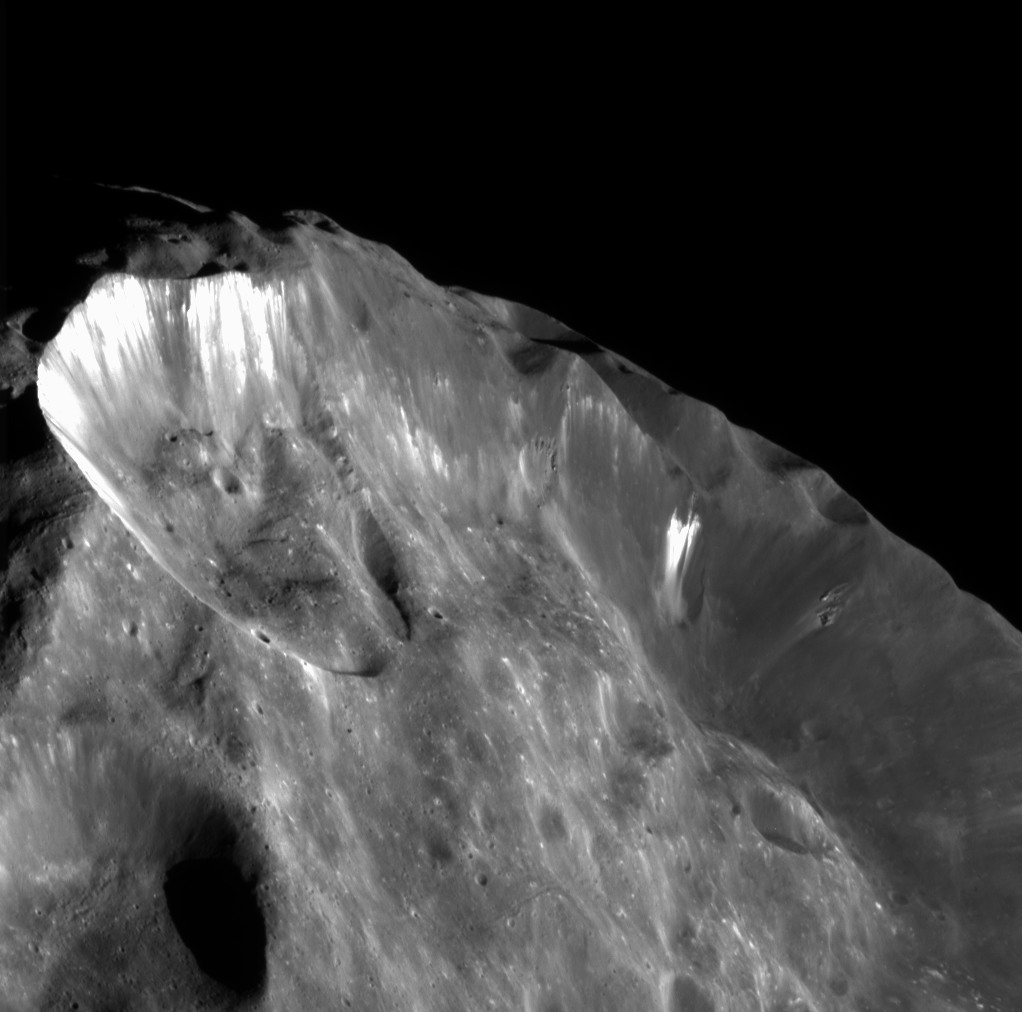 Crater Jason on Phoebe, imaged by Cassini